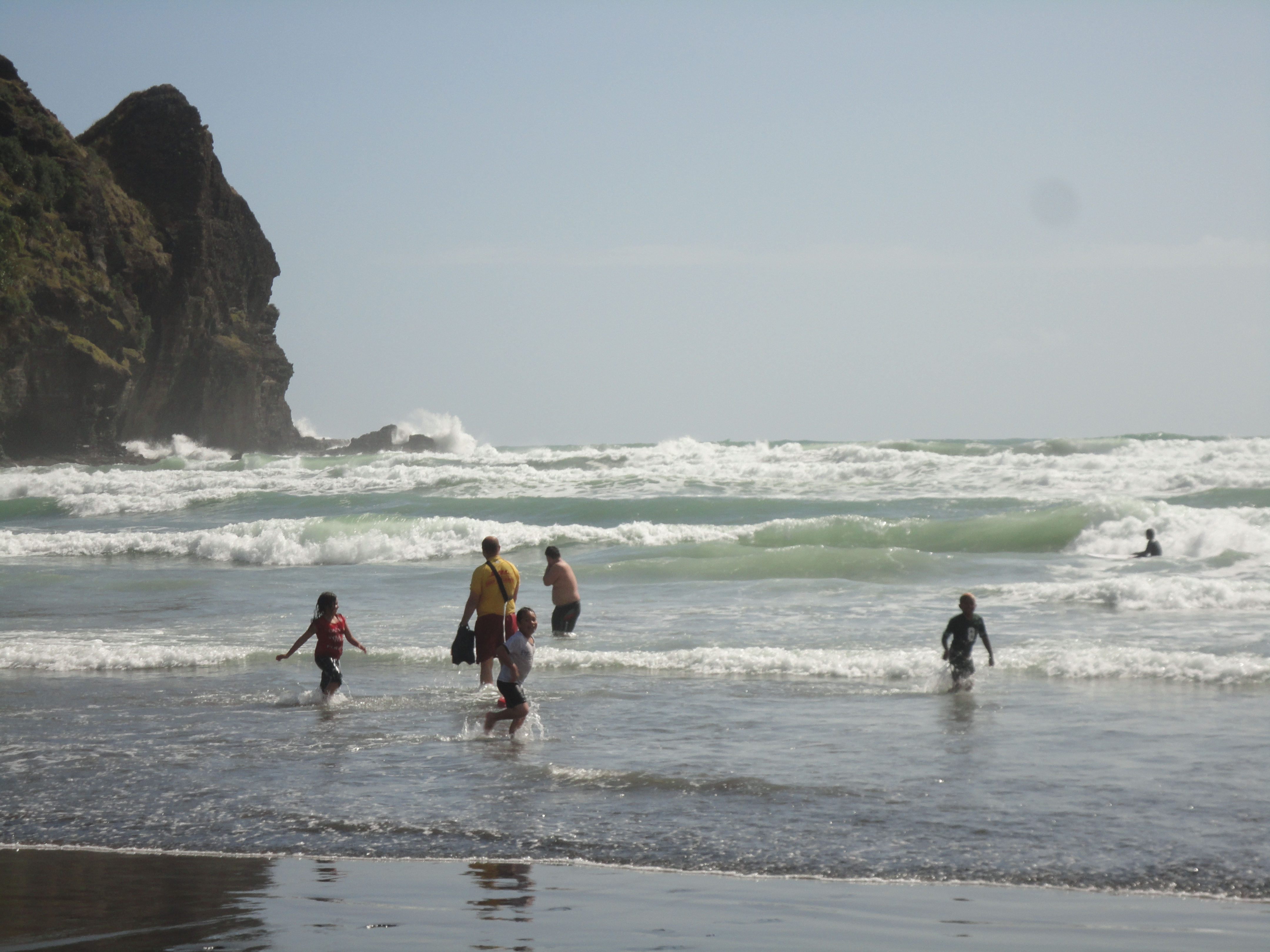 Piha Surf Life Saving Club Lifeguard Directing Swimmers in to the Flagged Area (Preventative Actions) - Photograph